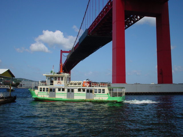 Ferry between Wakamatsu and Tobata wards, Kitakyushu. The cheapest in Japan, 50 yen per person, 50 yen per bicycle, three minutes. Photo by Ian Ruxton (Historian)